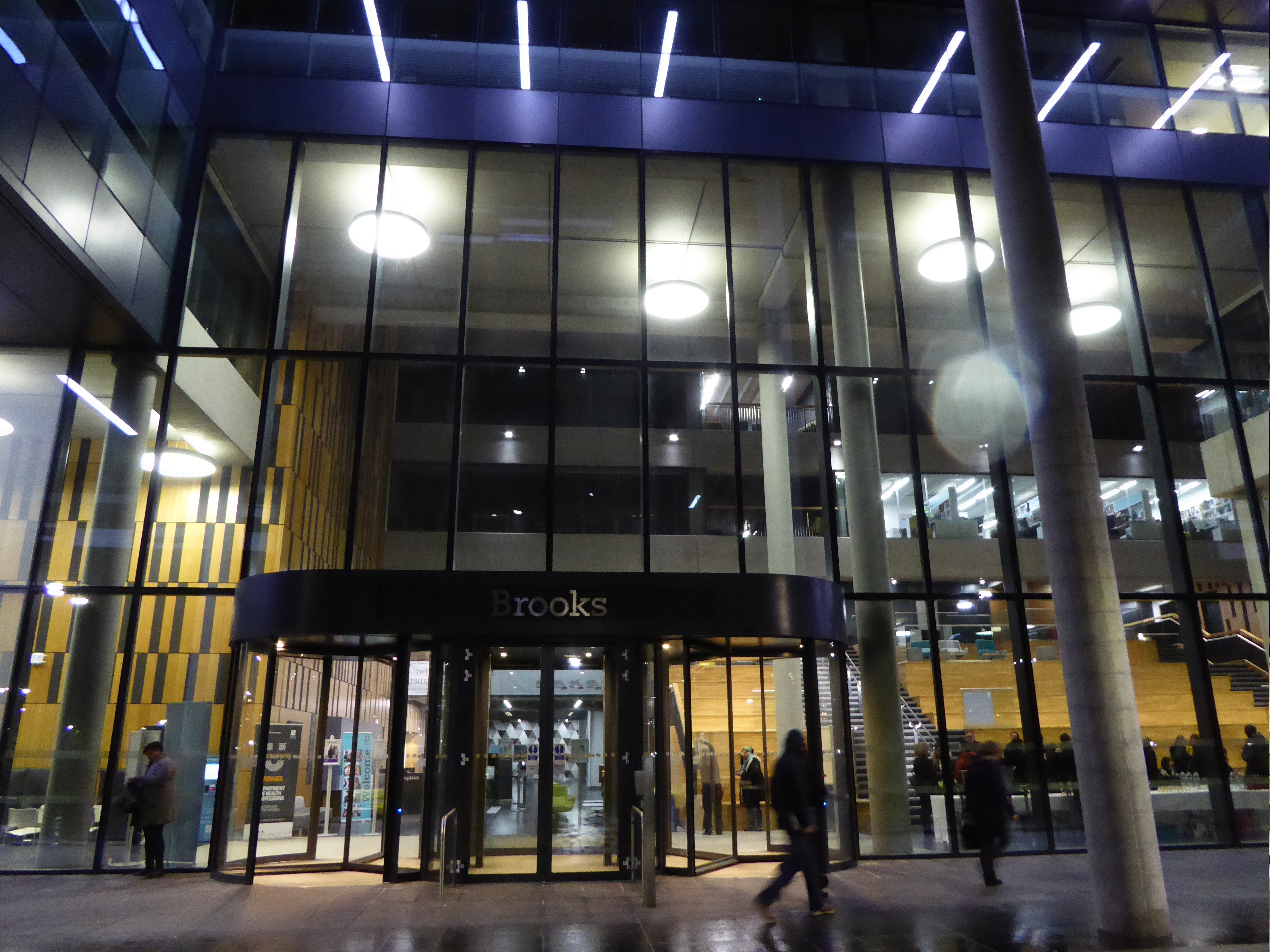 Brooks Building, Manchester Metropolitan University, Birley Field, 53 Bonsall Street, Hulme, Manchester, England, November 2016